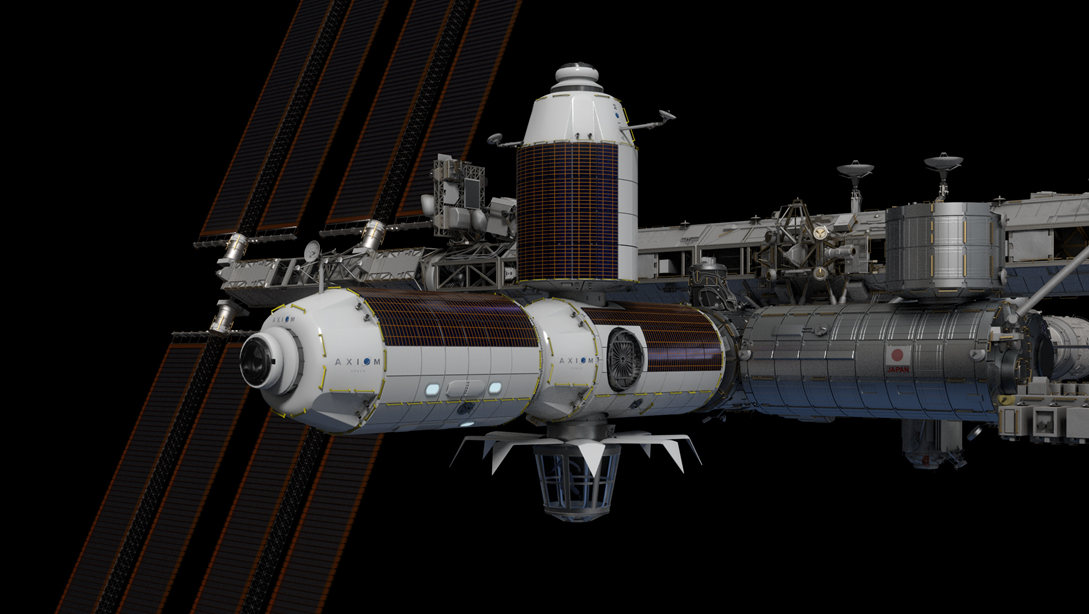 Axiom Earth Observatory interior